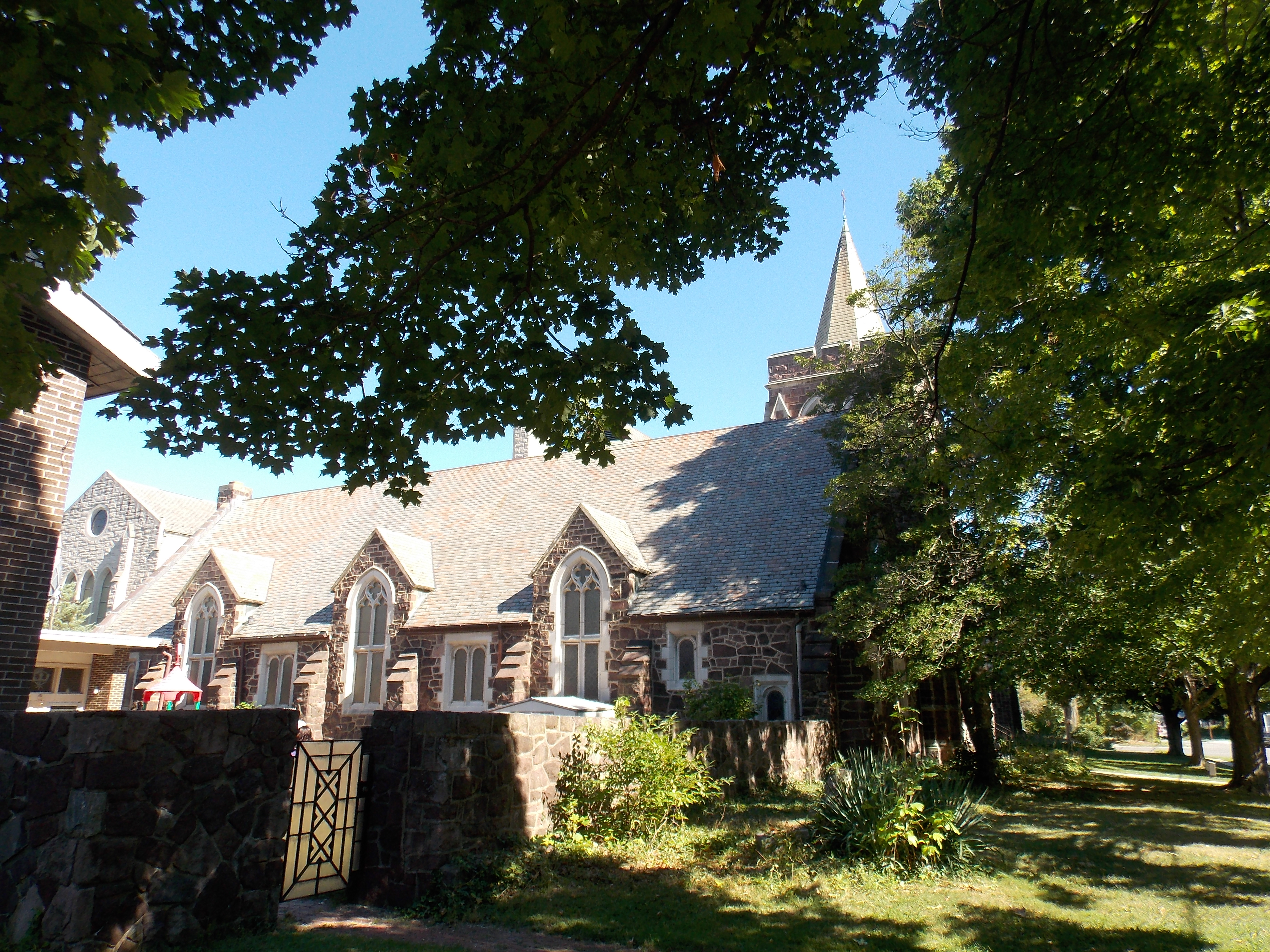 The former All Saints Church which is now a part of the Trinity Episcopal Cathedral complex in Trenton, New Jersey.